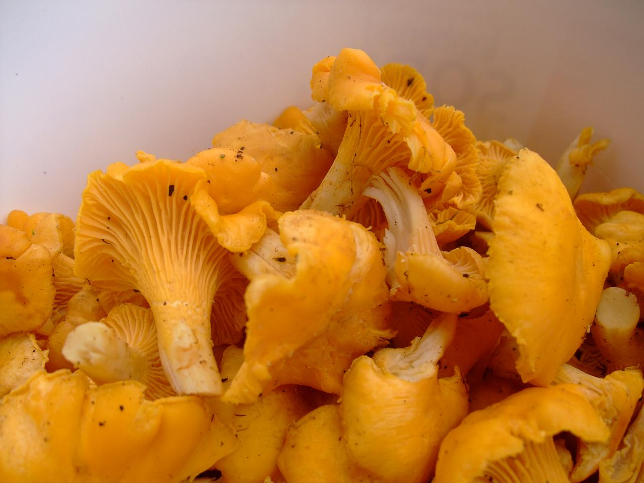 Mushroom from Evenesdal